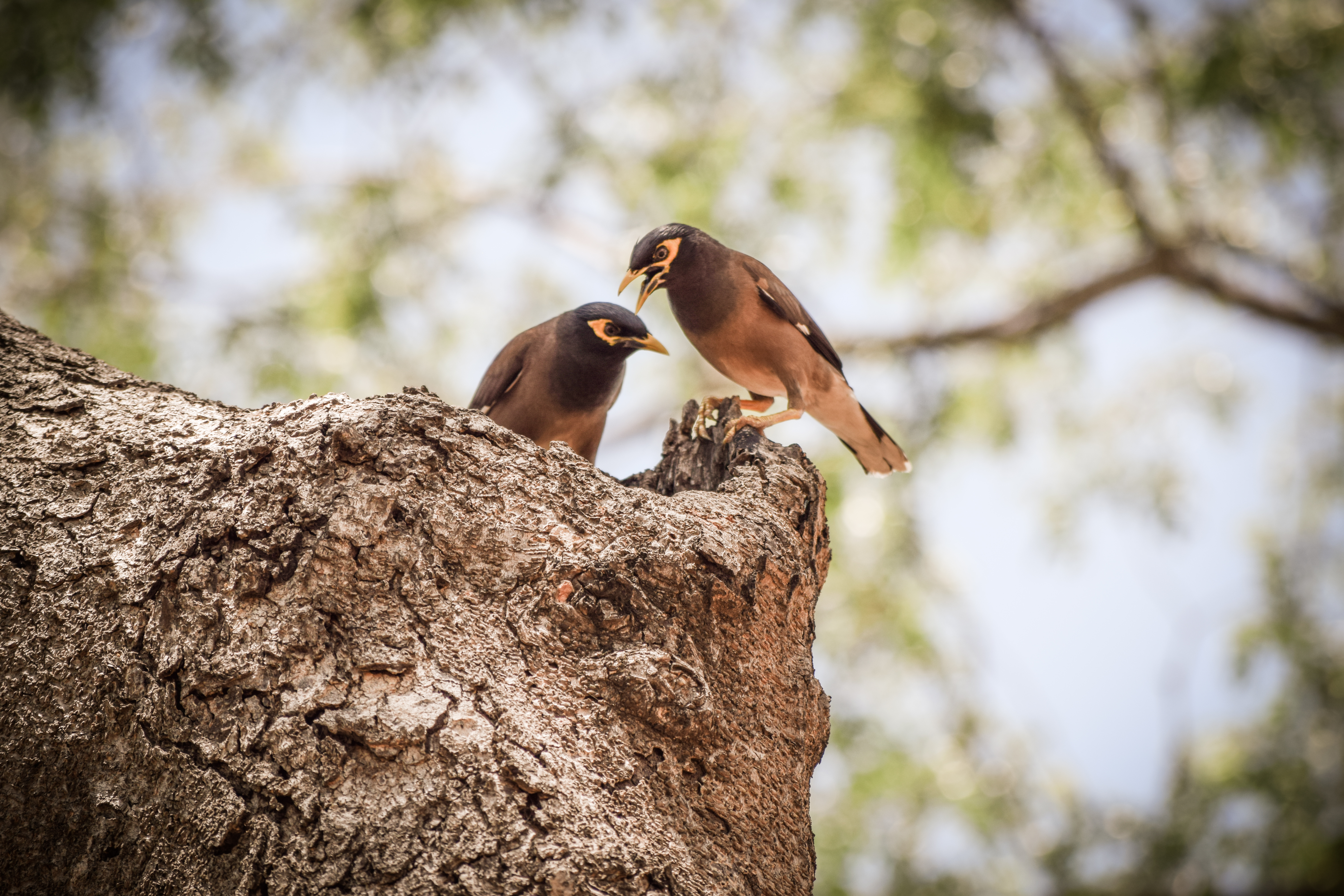 The common myna/Indian mynah is a member of the family Sturnidae (starlings and mynas) native to Asia. An omnivorous open woodland bird with a strong territorial instinct, the myna has adapted extremely well to urban environments.